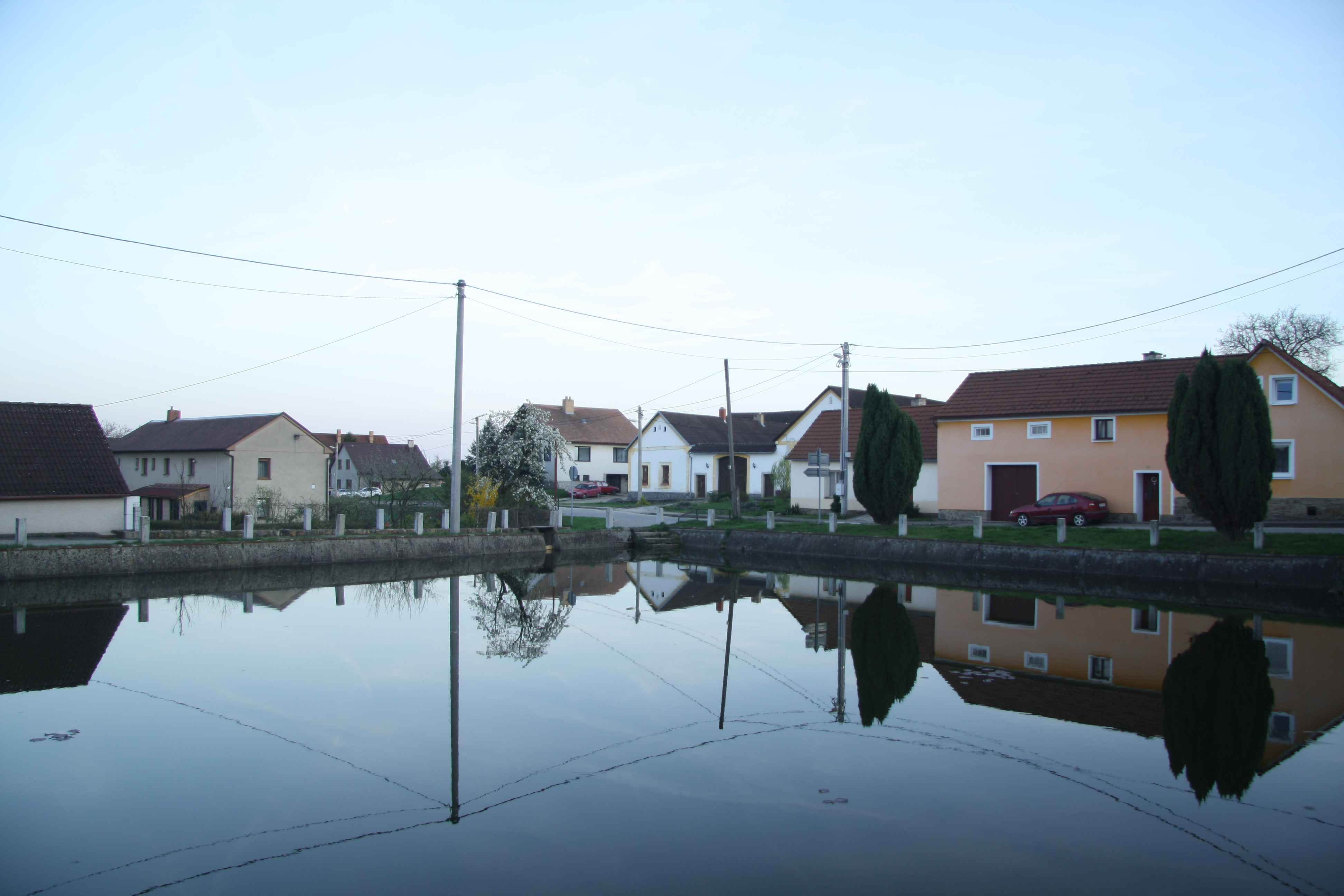 Village Pond in Mysletice, Jihlava District.